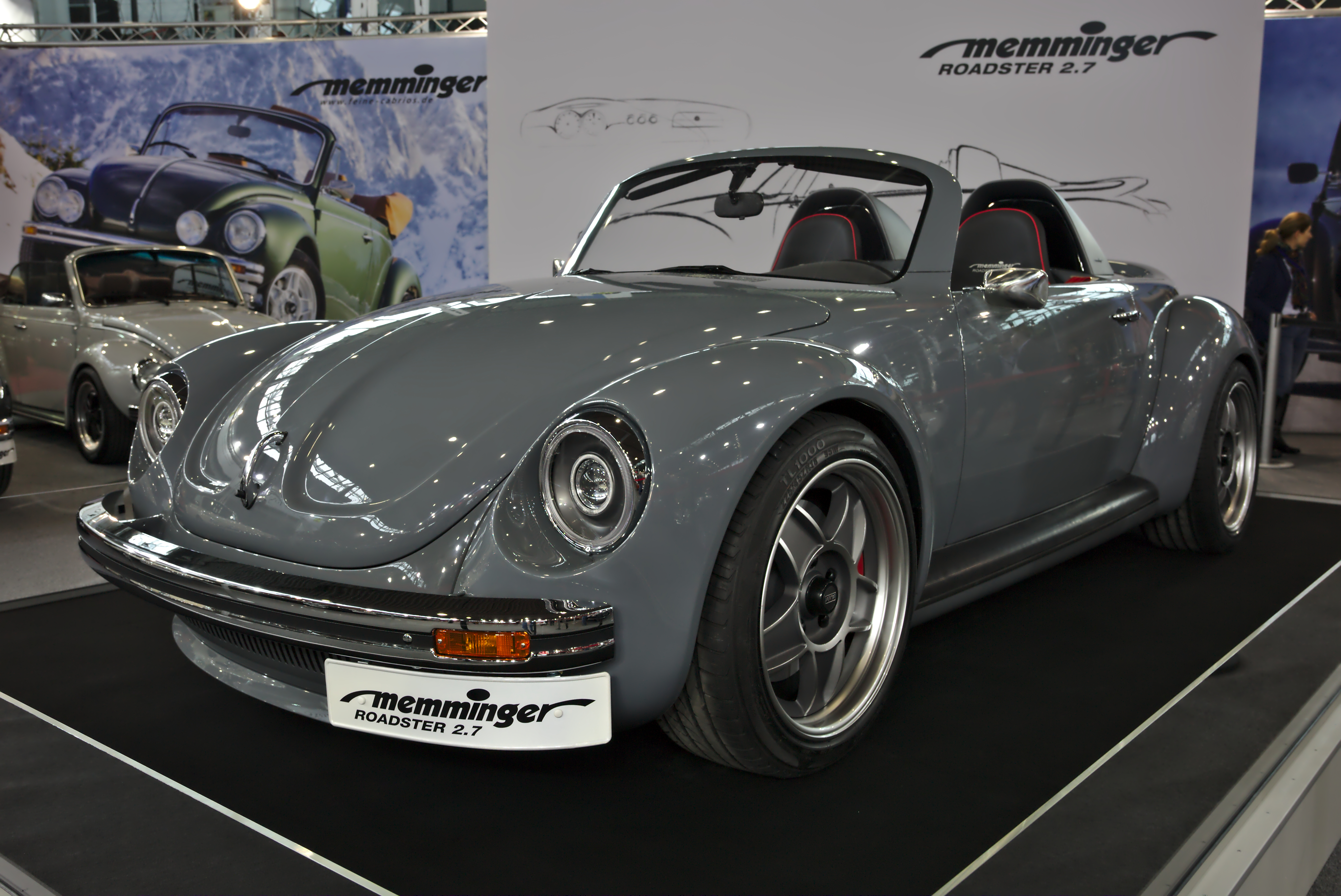 Memminger Roadster 2.7 at Retro Classics 2018